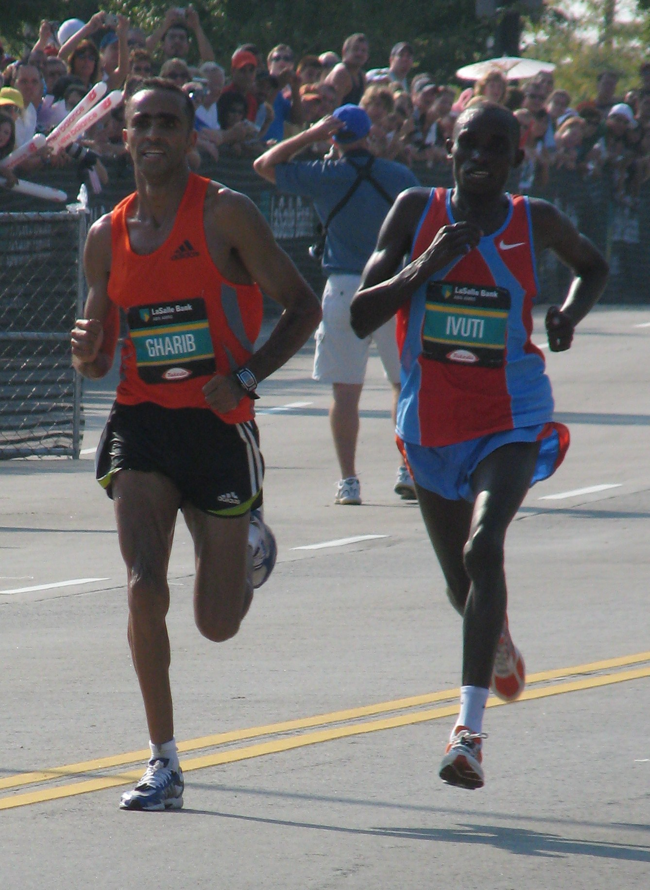 Chicago Marathon (Patrick Ivuti & Jaouad Gharib) Category:Images of Chicago, Illinois